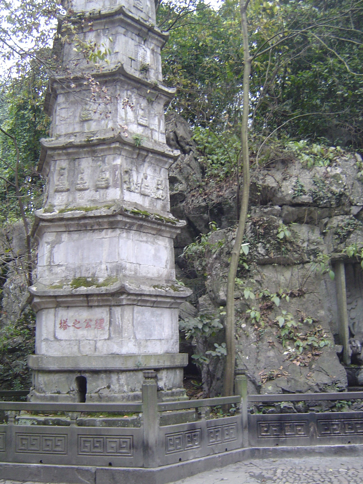 Stone pagoda at Lingyin Temple, Hangzhou, China. This pagoda contains the ashes of Huili, the Indian monk who founded Lingyin. Photo taken by Sumple on 13/12/2006. As a courtesy, and entirely voluntarily, please notify me if you change this image or its description.